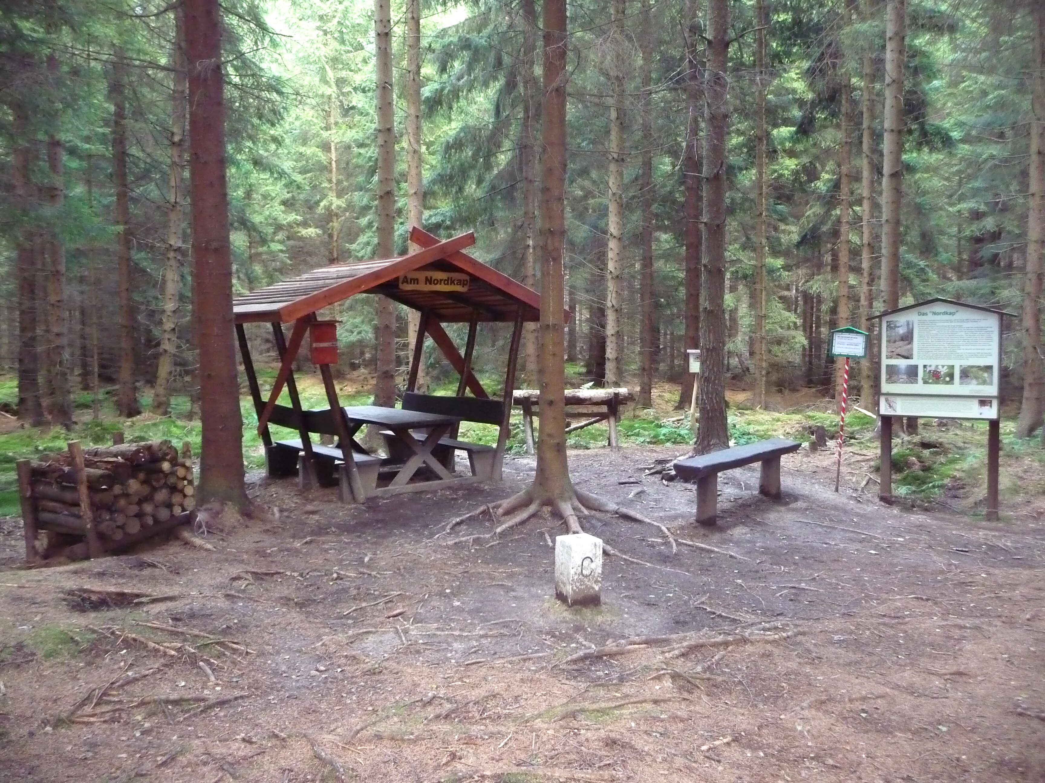 Northernmost point of Czechia, former northernmost point of Czechoslovakia and Austria-Hungary.